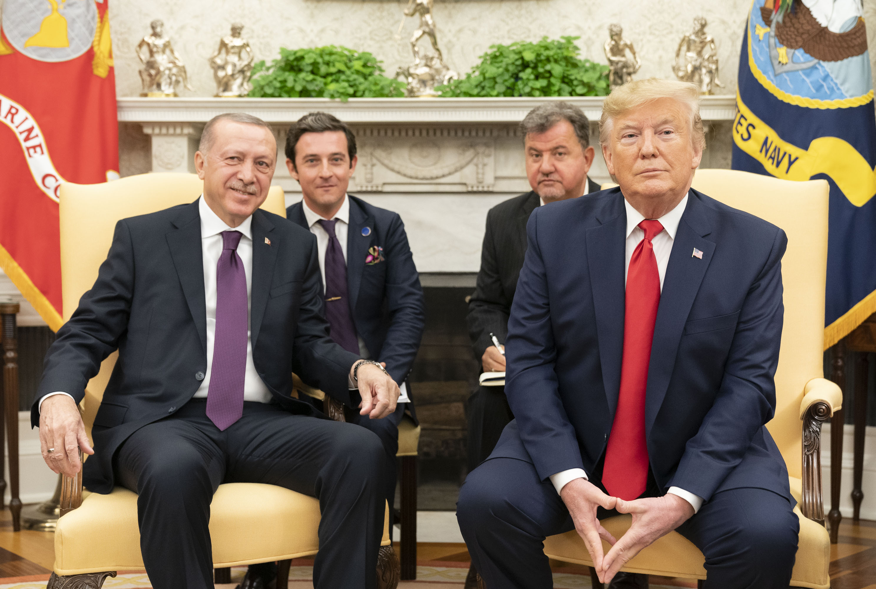 President Donald J. Trump meets with Turkish President Recep Tayyip Erdogan Wednesday, Nov. 13, 2019, in the Oval Office of the White House. (Official White House Photo by Shealah Craighead)